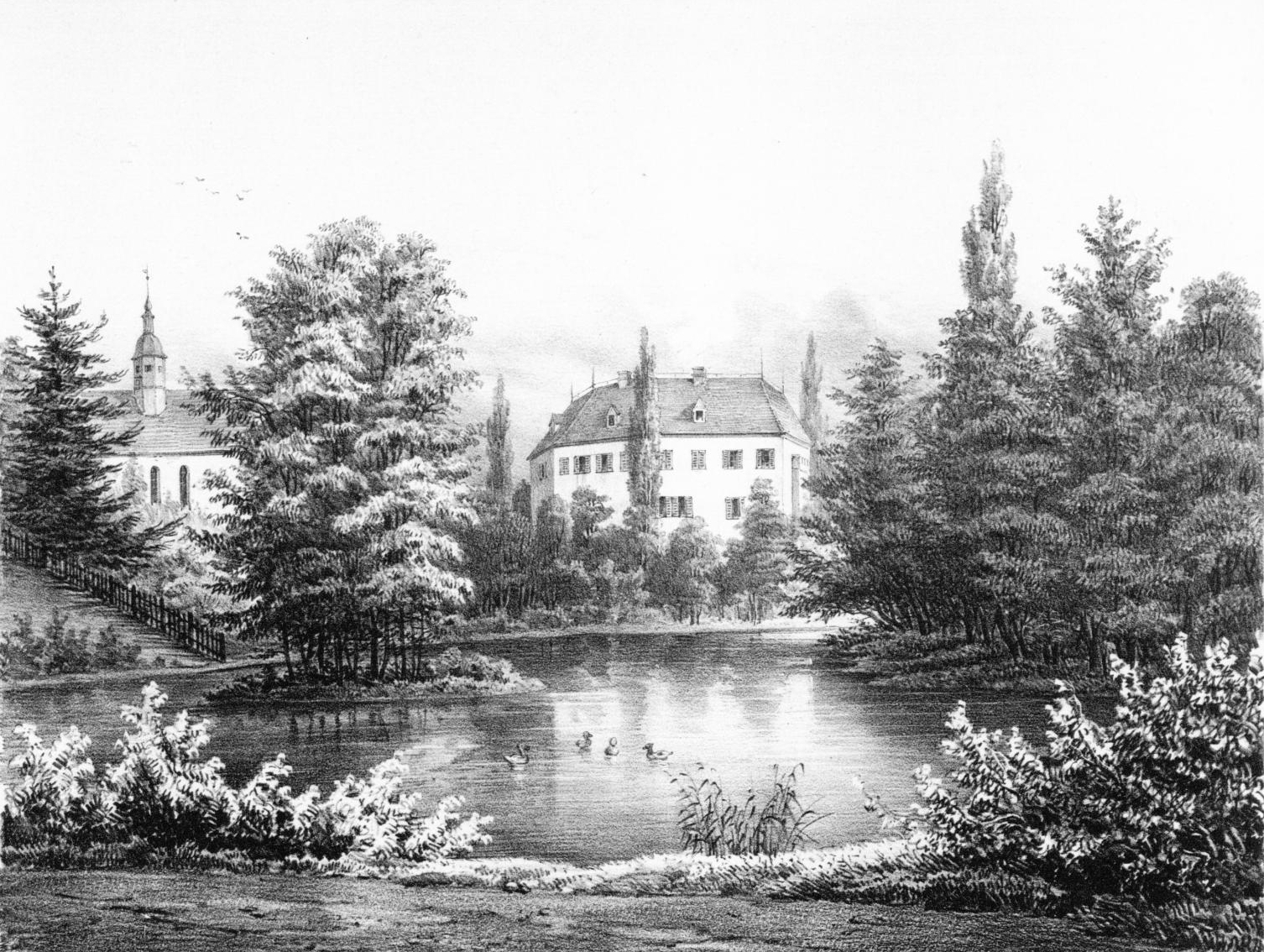 manor Weißenborn in the Erzgebirge